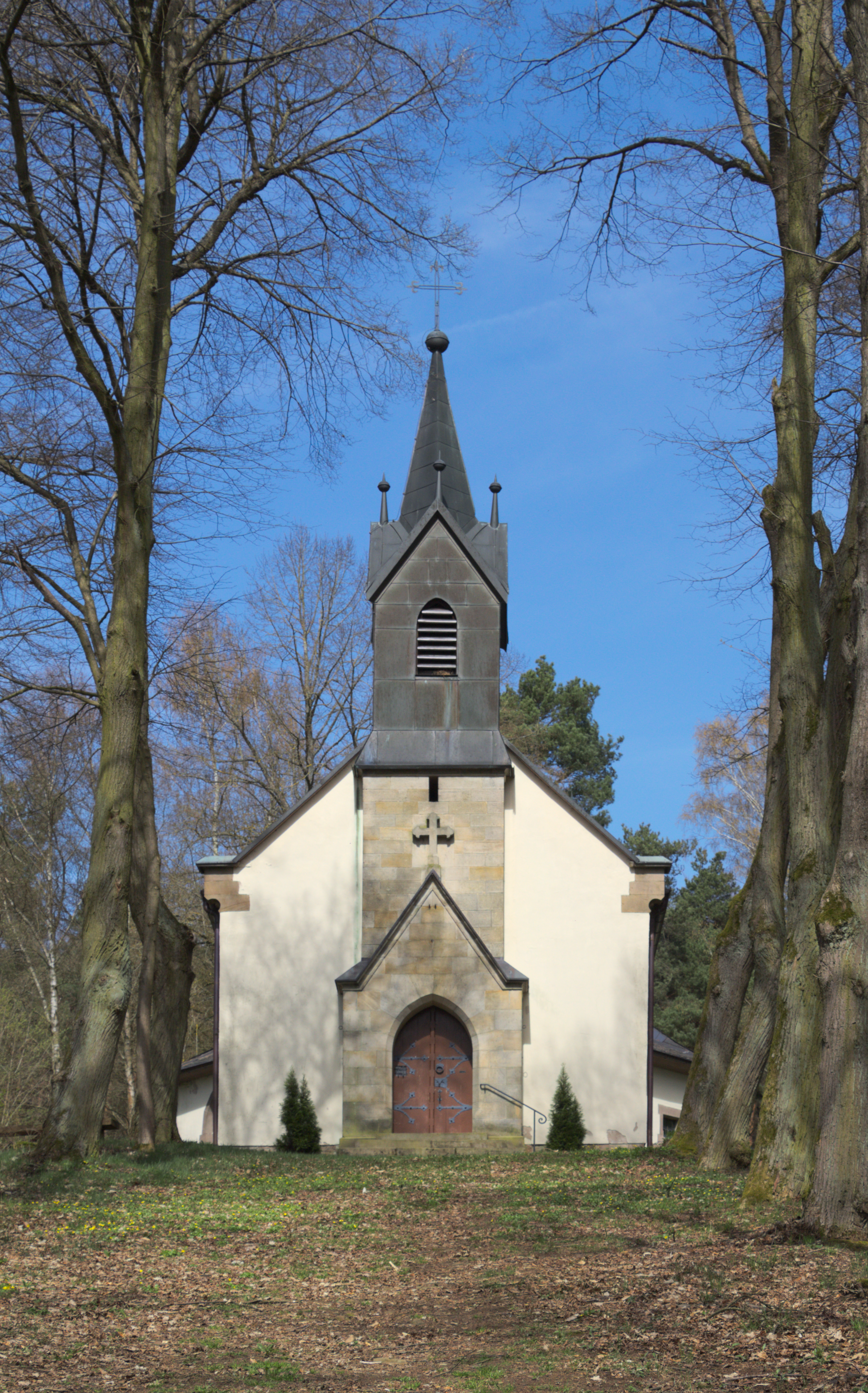 St. Rochus Chapel near Kaemmerzell, Fulda, Hesse, Germany